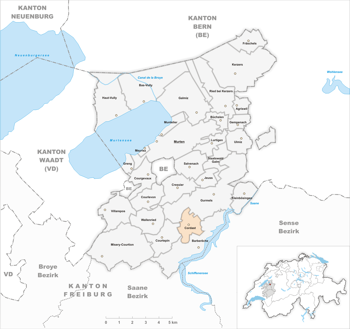 Municipality Cordast Artist: Tschubby